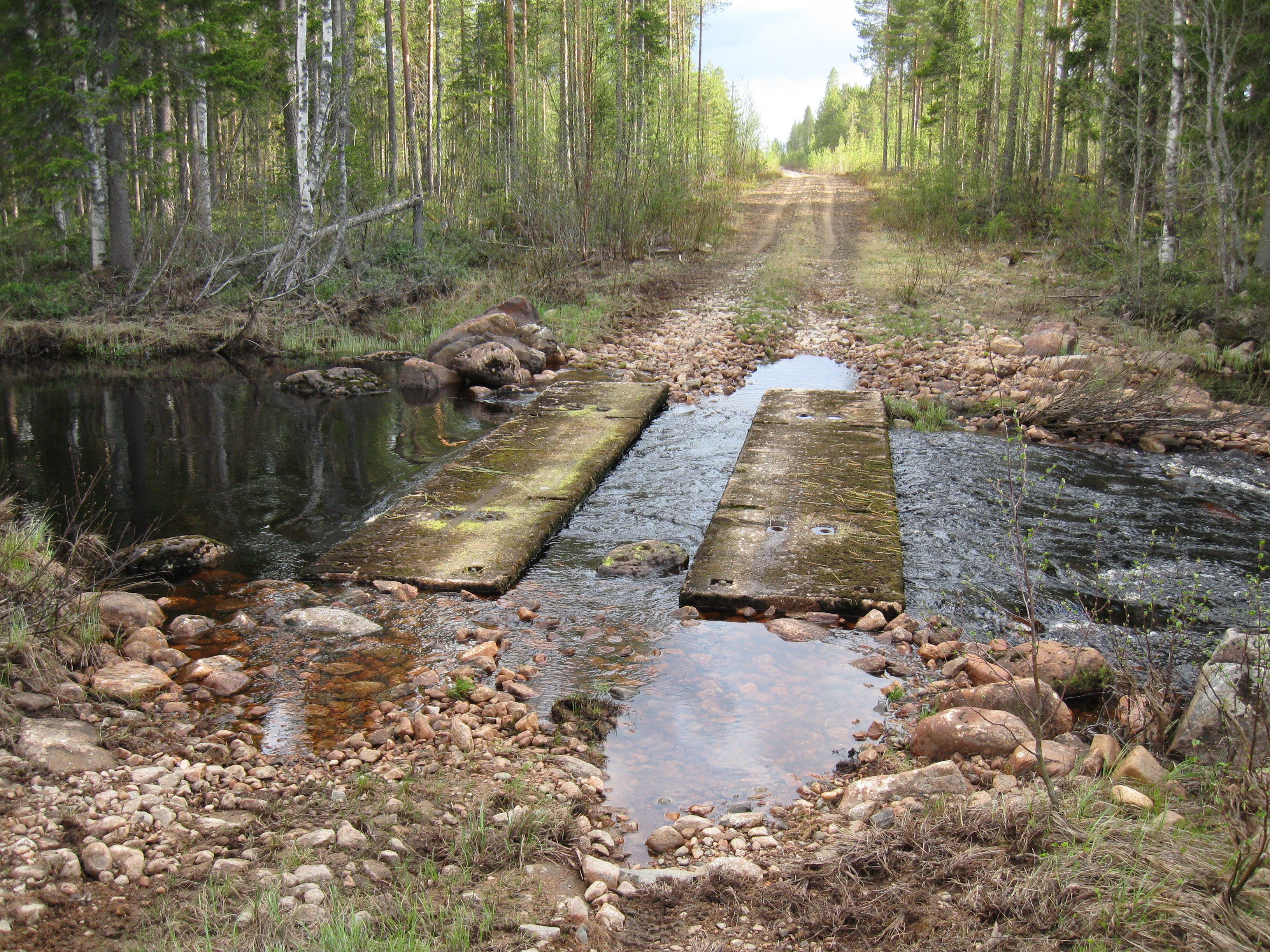 A ford for driving accross the Piltuanjoki river in Pudasjärvi, Finland.